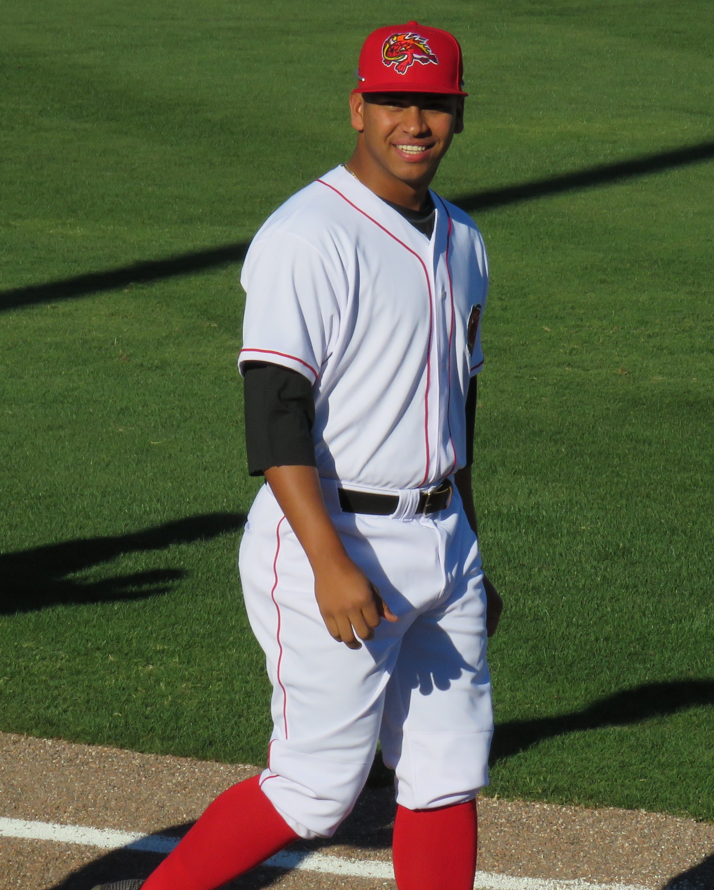 Sanchez on the field